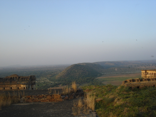 view of Tijara Fort